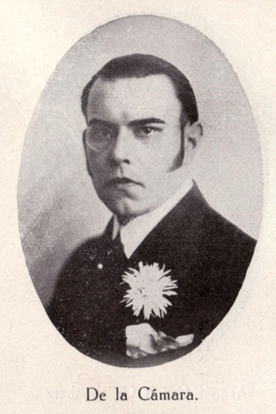 Felix Achille de la Cámara (1897-1945) was a Czech writer and playwright